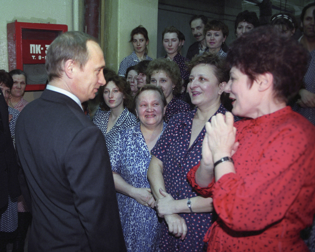 “Vladimir Putin visits JSC Novaya Ivanovskaya Manufaktura”. Acting President of Russia Vladimir Putin congratulating workers at JSC Novaya Ivanovskaya Manufaktura on International Women's Day.